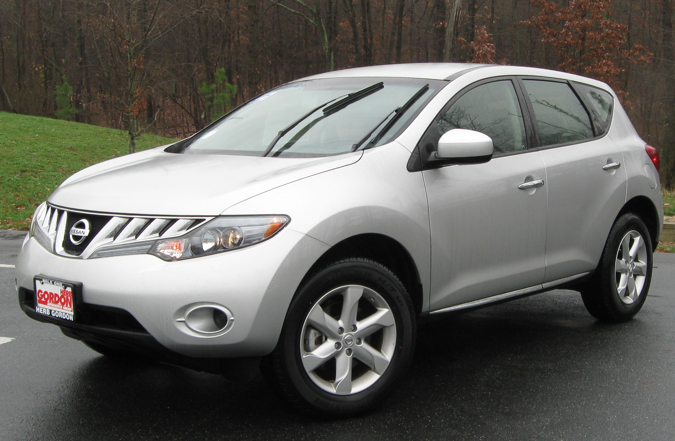 2009 Nissan Murano photographed in Silver Spring, Maryland, USA.